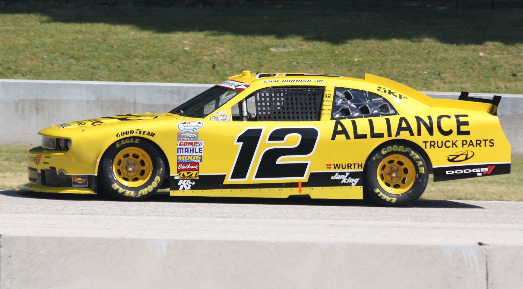 Sam Hornish, Jr. NASCAR Nationwide Series car at Road America at the 2012 Sargento 200.